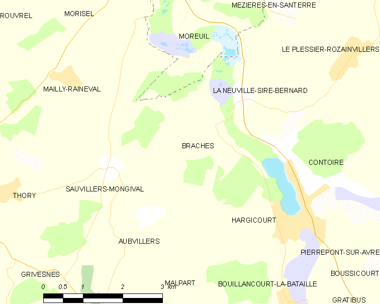 Map of French municipality Braches